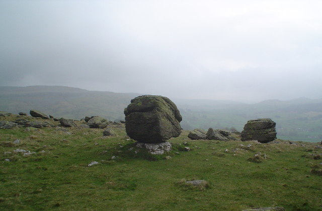 ...yet more Norber Erratics. Between Clapham and Autswick, Y Dales.